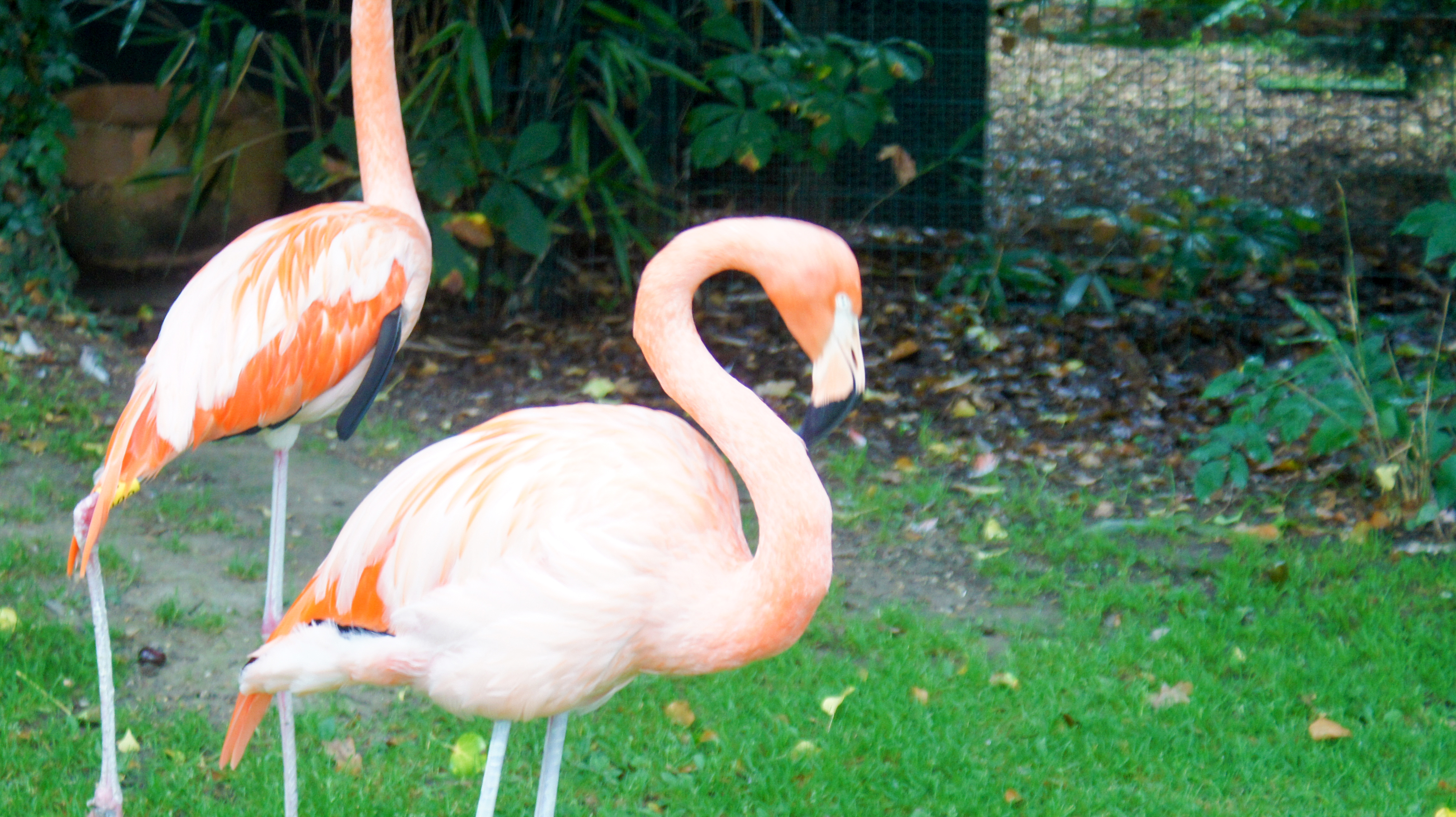 Chilean flamigo pruning itself